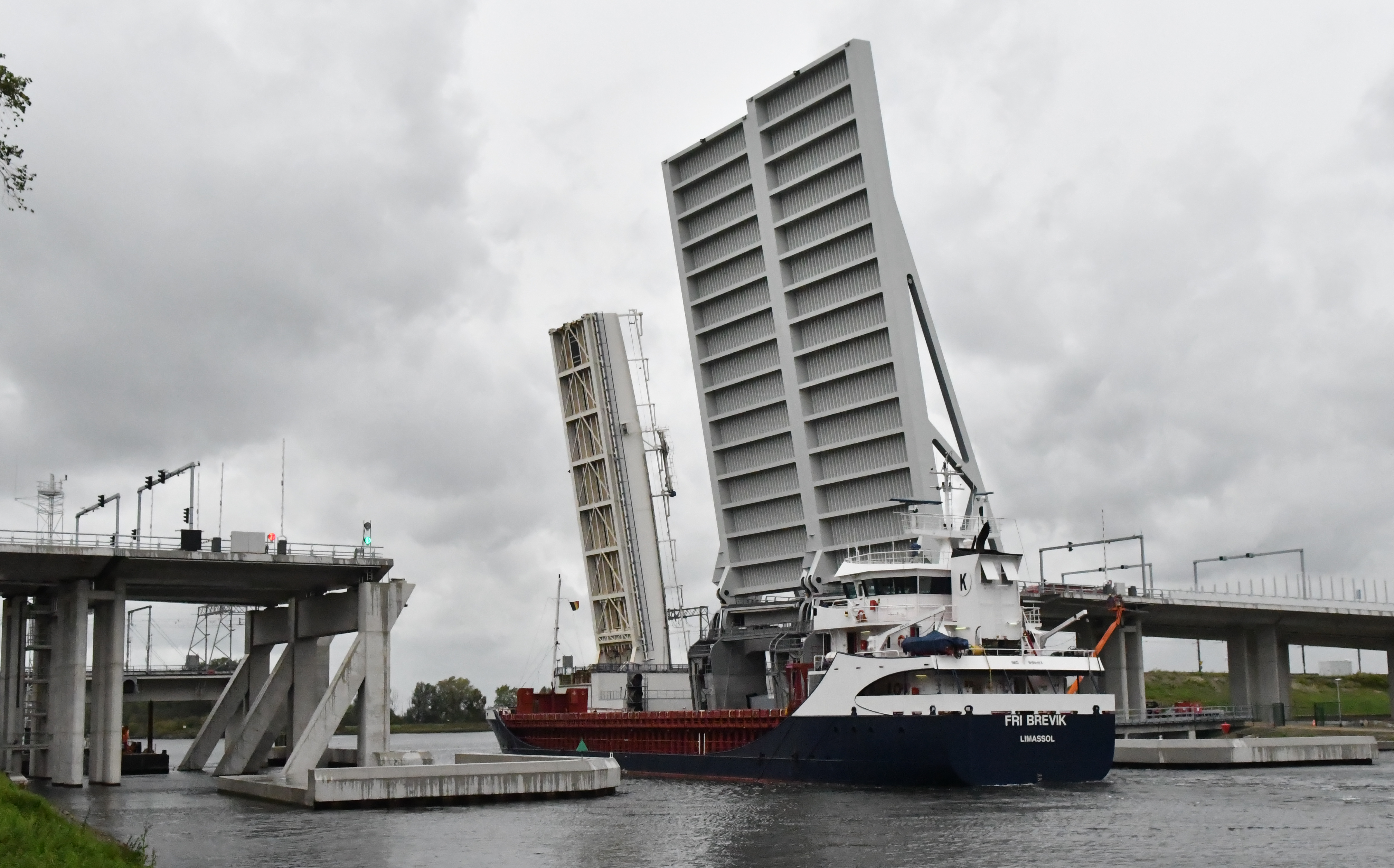 Bascule bridges in the A11 Motorway in Dudzele near Bruges, Belgium opened for a marine vessel.